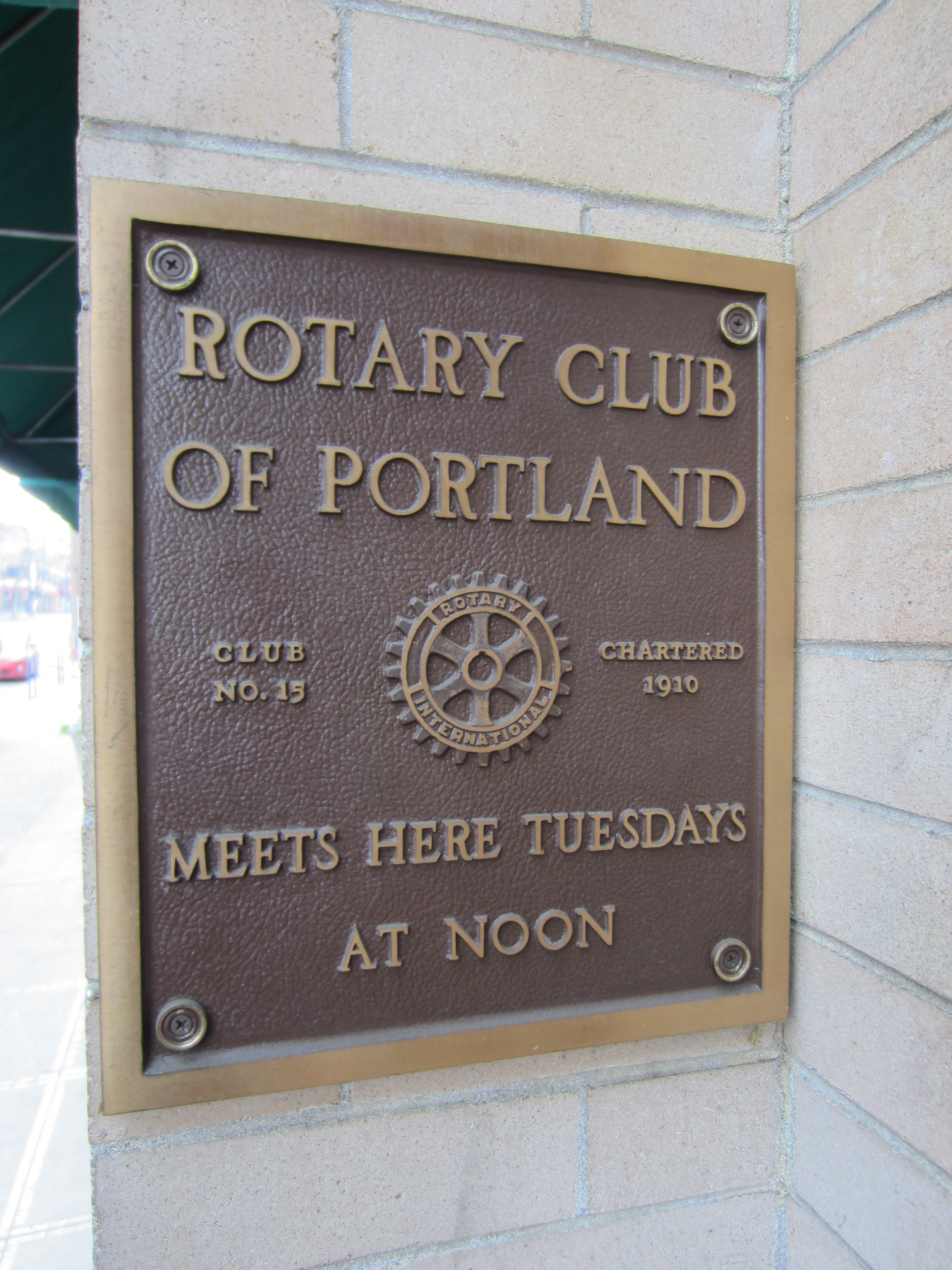 Rotary Club of Portland plaque at the Governor Hotel in downtown Portland, Oregon